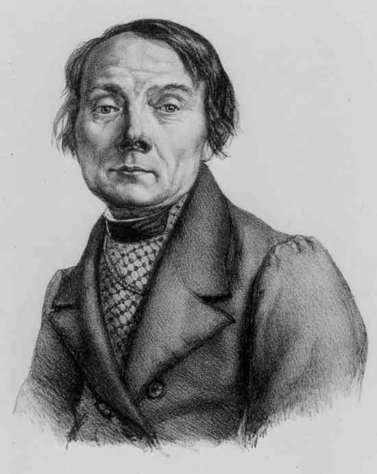 The austro-german physician Joseph Ennemoser (1787-1854)